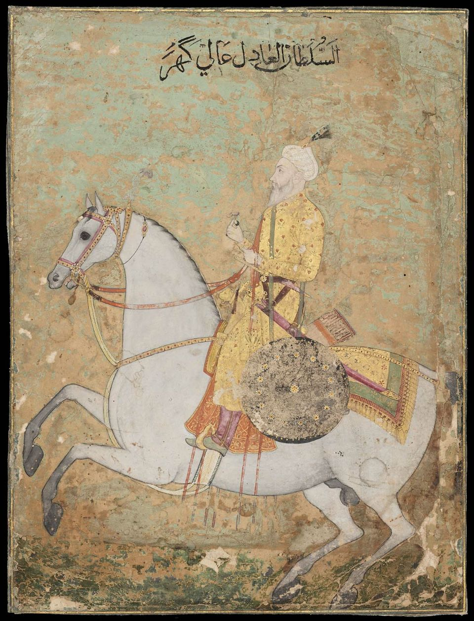 Equestrian Portrait of Shah Alam II, 18th century Inscription in Persian above the figure: "Il Sultan Al ‘Adil ‘Ali-Guhar" (Shah ‘Alam II). Place of origin: Northern India. Source